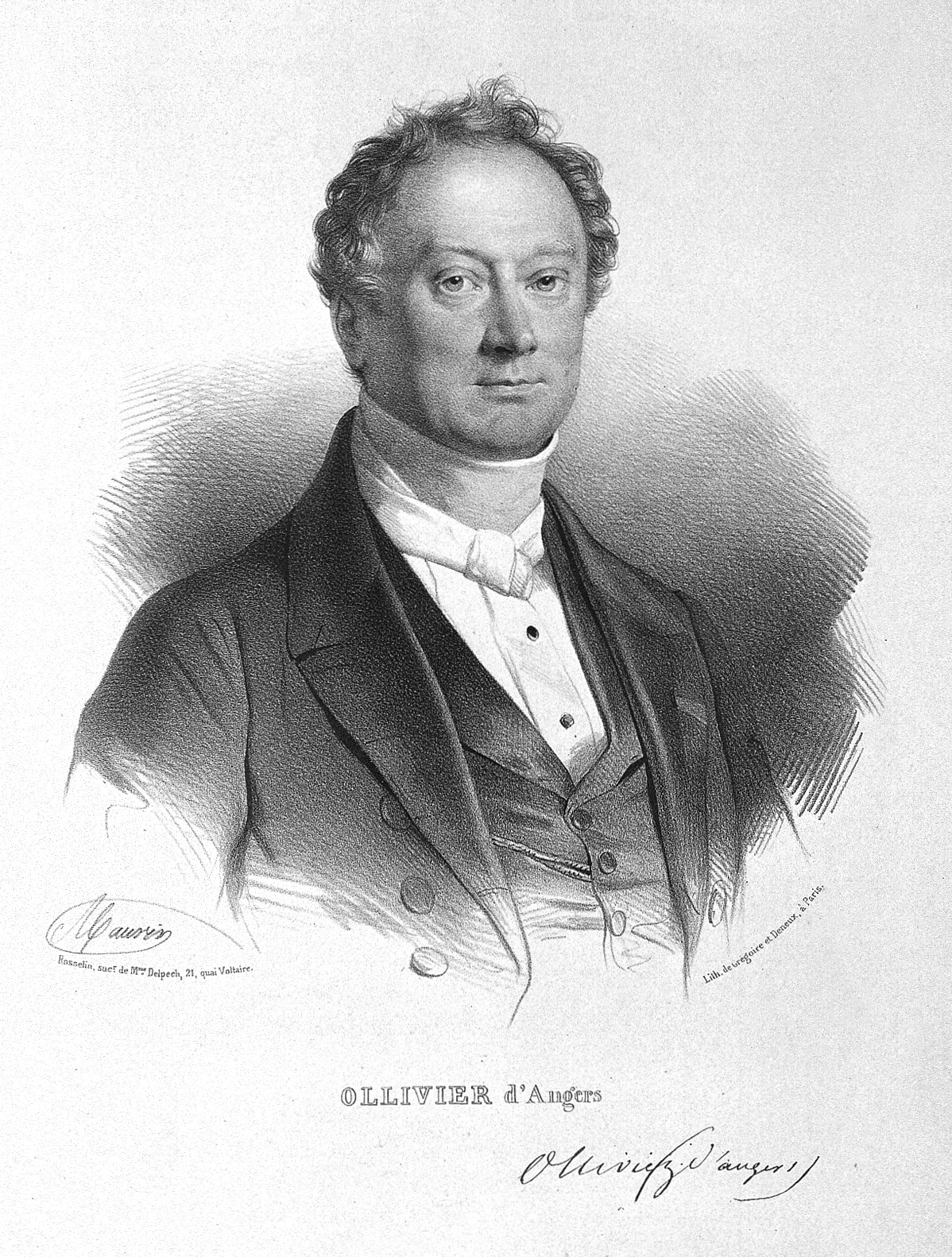 Portrait of Charles Prosper Ollivier d'Angers; head and shoulders. Iconographic Collections Keywords: Charles Prospere Ollivier d'Angers